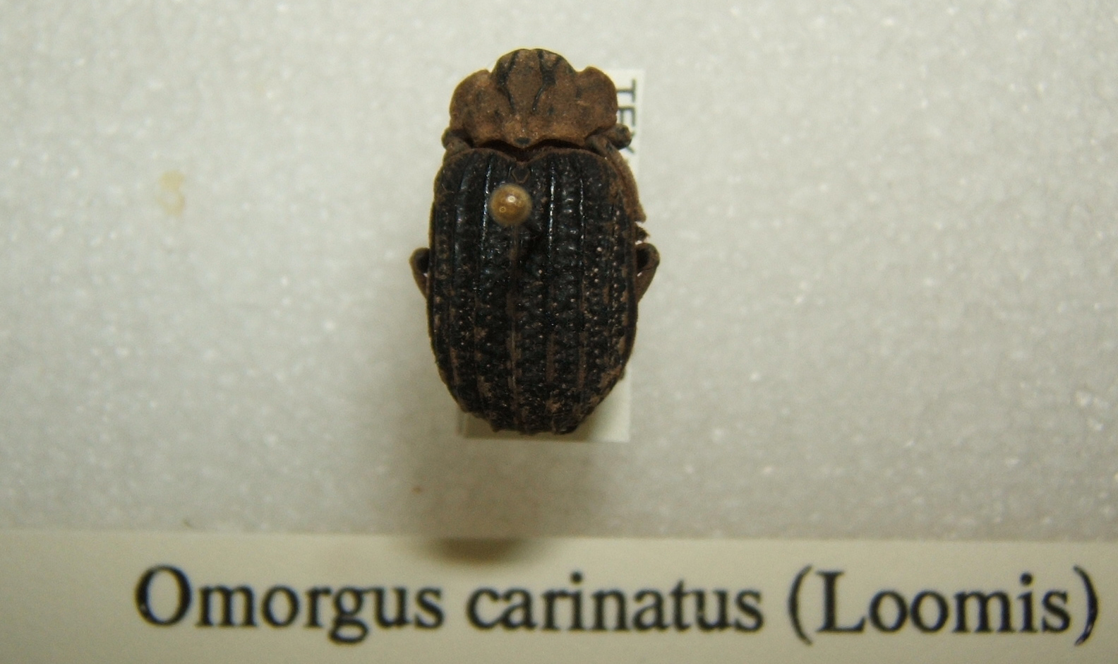 Omorgus carinatus adult taken by Shawn Hanrahan at the Texas A&M University Insect Collection in College Station, Texas. a cropped version is available as Omorgus carinatus sjh.cropped.jpg.